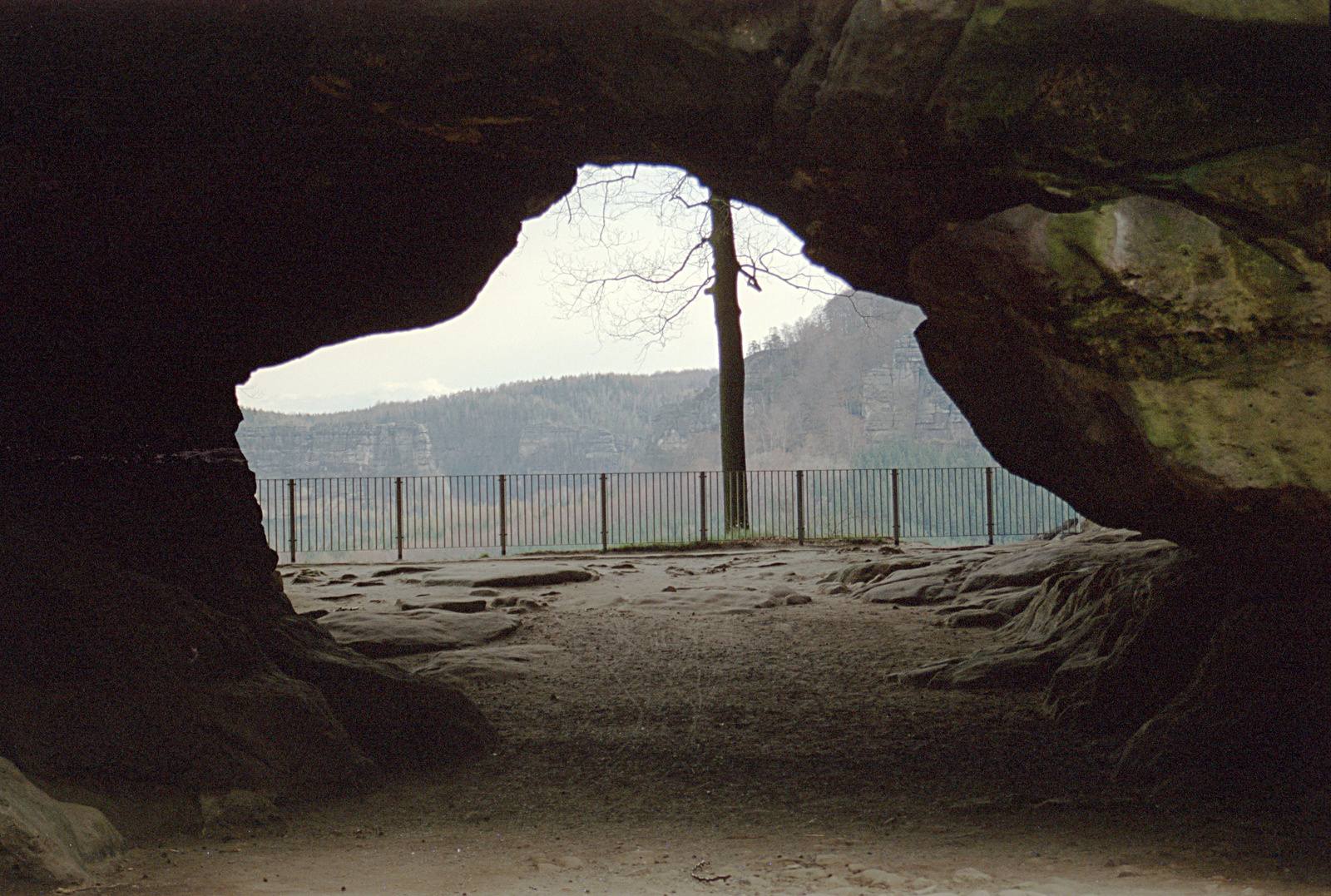 the cave “Kuhstall” at the mountain “Neuer Wildenstein”